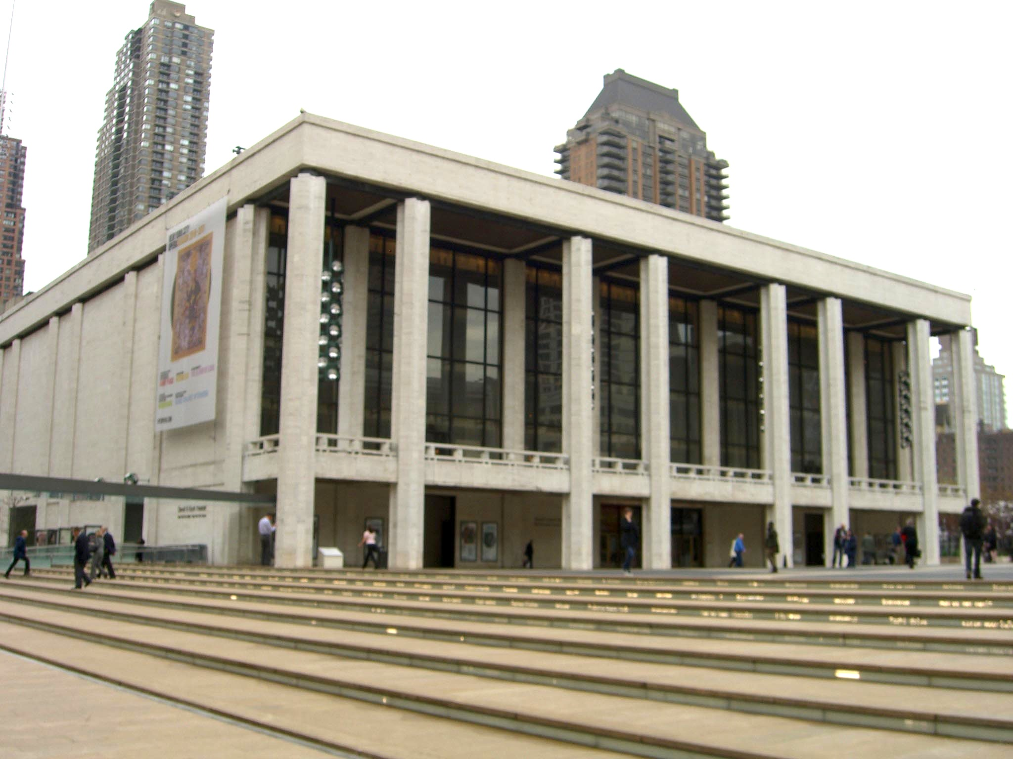 The David H. Koch Theater at Lincoln Center in Manhattan, photographed April 28, 2011. Photographed by Luigi Novi. This photo is not in the public domain. It may, however, be used, modified and published for any purpose, free of charge, only if the photographer is properly credited, either by linking the photograph to this page, or with an easily visible credit to the photographer placed near the photo in each instance in which it is used. (See licensing information below.) Publication of this photo without this proper attribution constitutes copyright infringement. If you have any questions, you can contact me on my Wikipedia Talk Page.